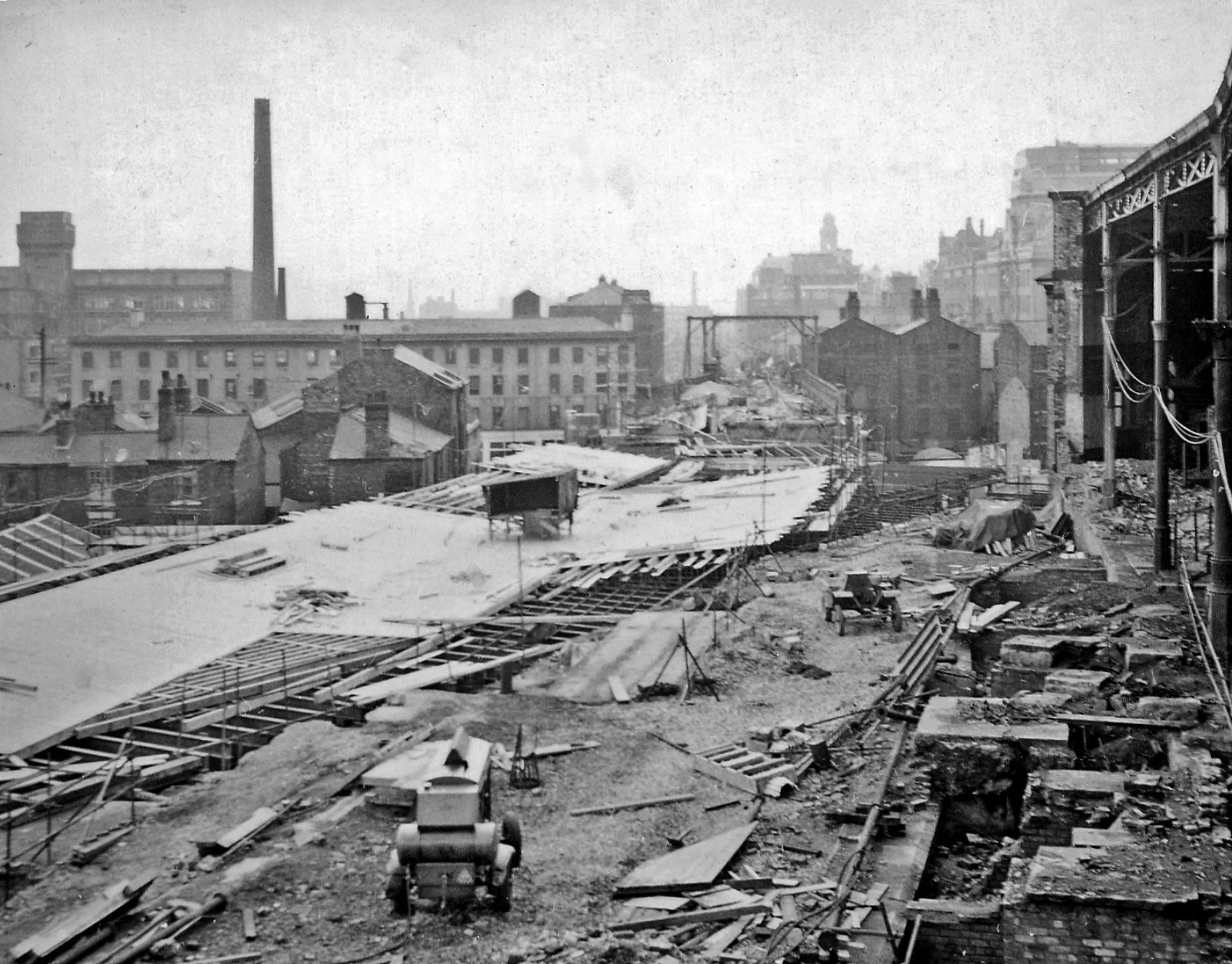 Reconstruction of South Junction part of Manchester London Road Station. View westward, towards Oxford Road on the Manchester South Junction & Altrincham line at the bridge over Fairfield Street. The main London Road (later Piccadilly) Station being up to the right.